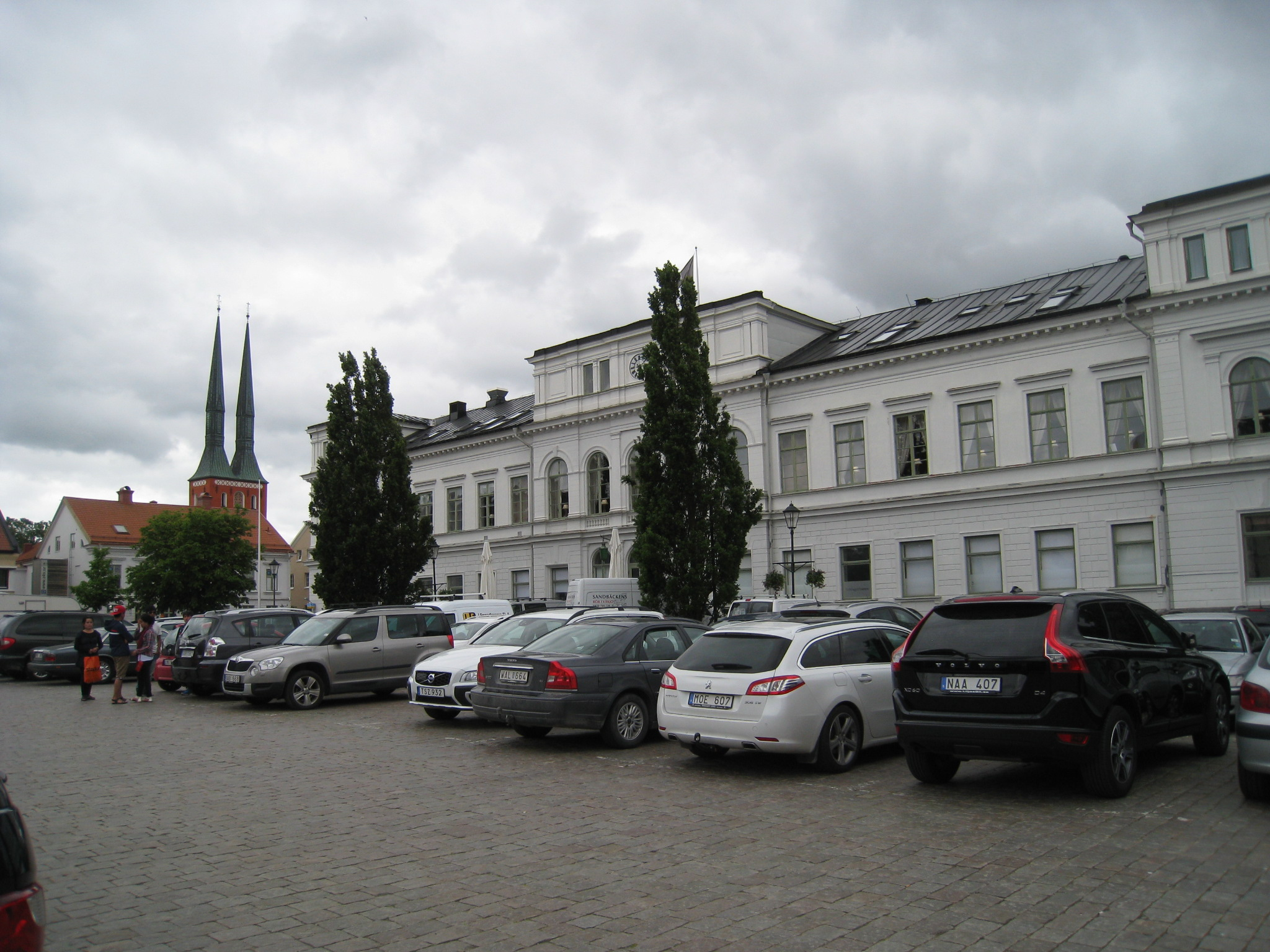 Principal hotel at Stortorget in Växjö Town in Småland in Sweden. The architect was Theodor Anckarsvärd.